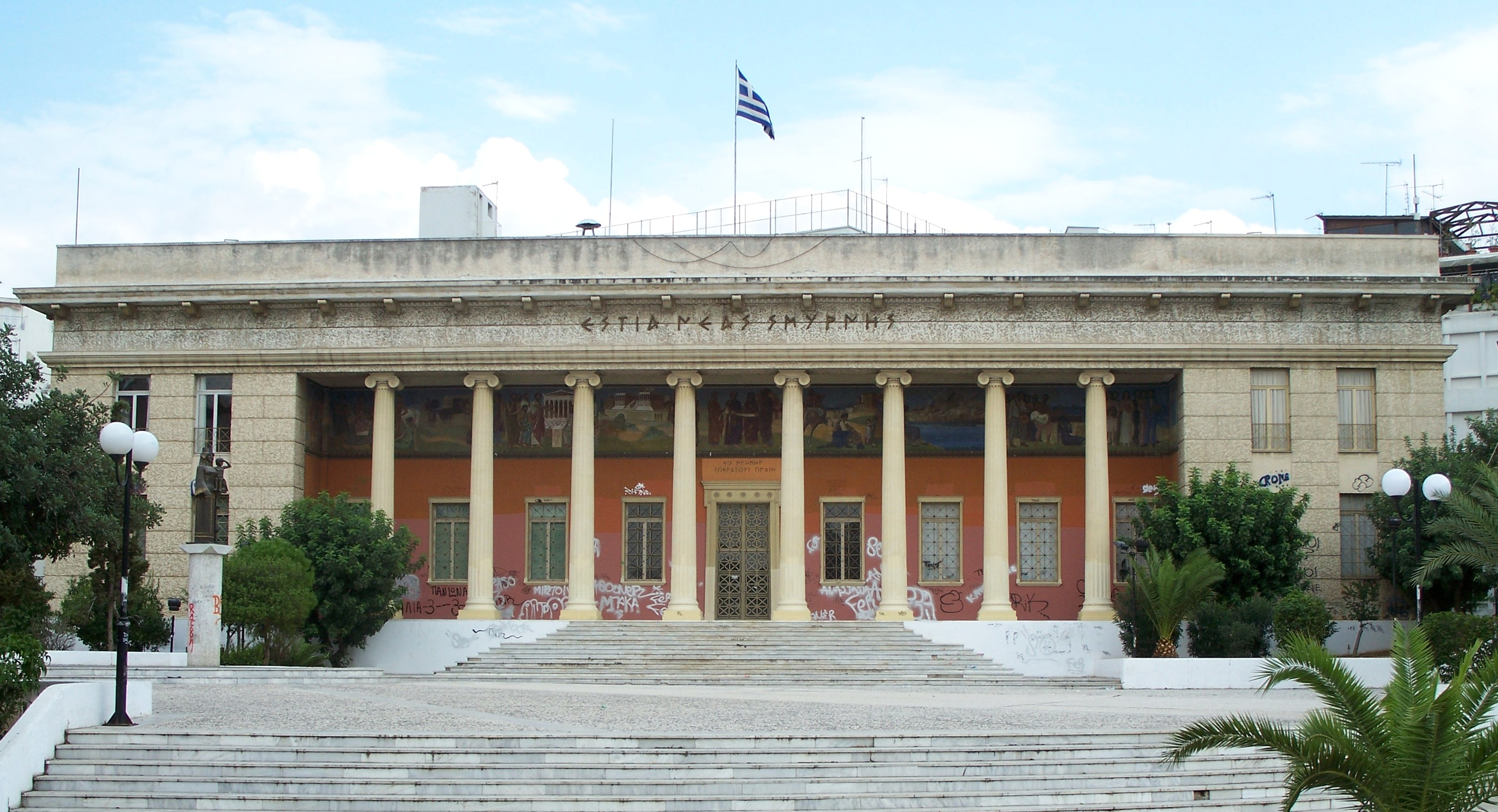 The cultural center at Nea Smyrni, Athens.